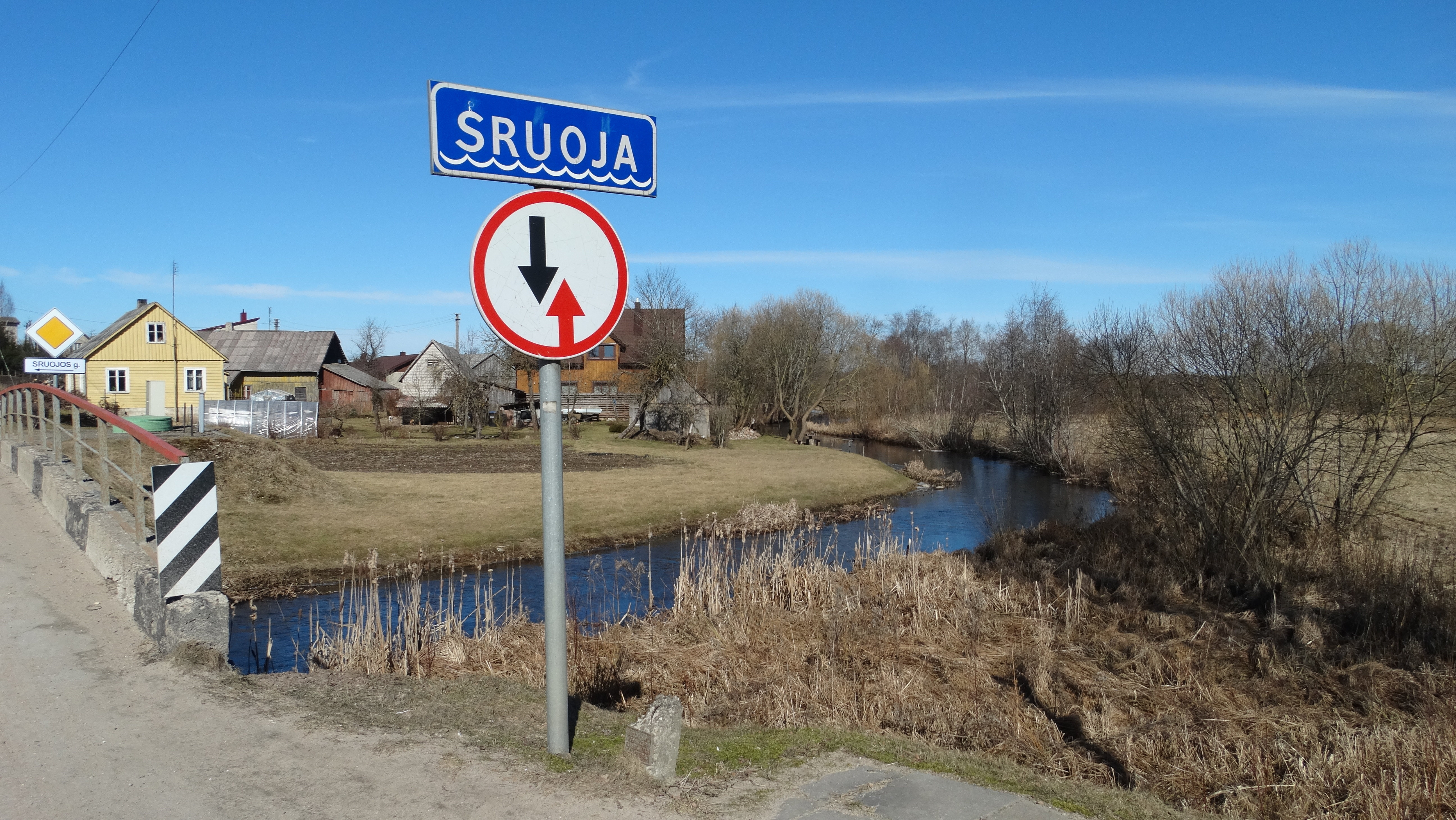 Sruoja River, Alsėdžiai, Plungė district, Lithuania